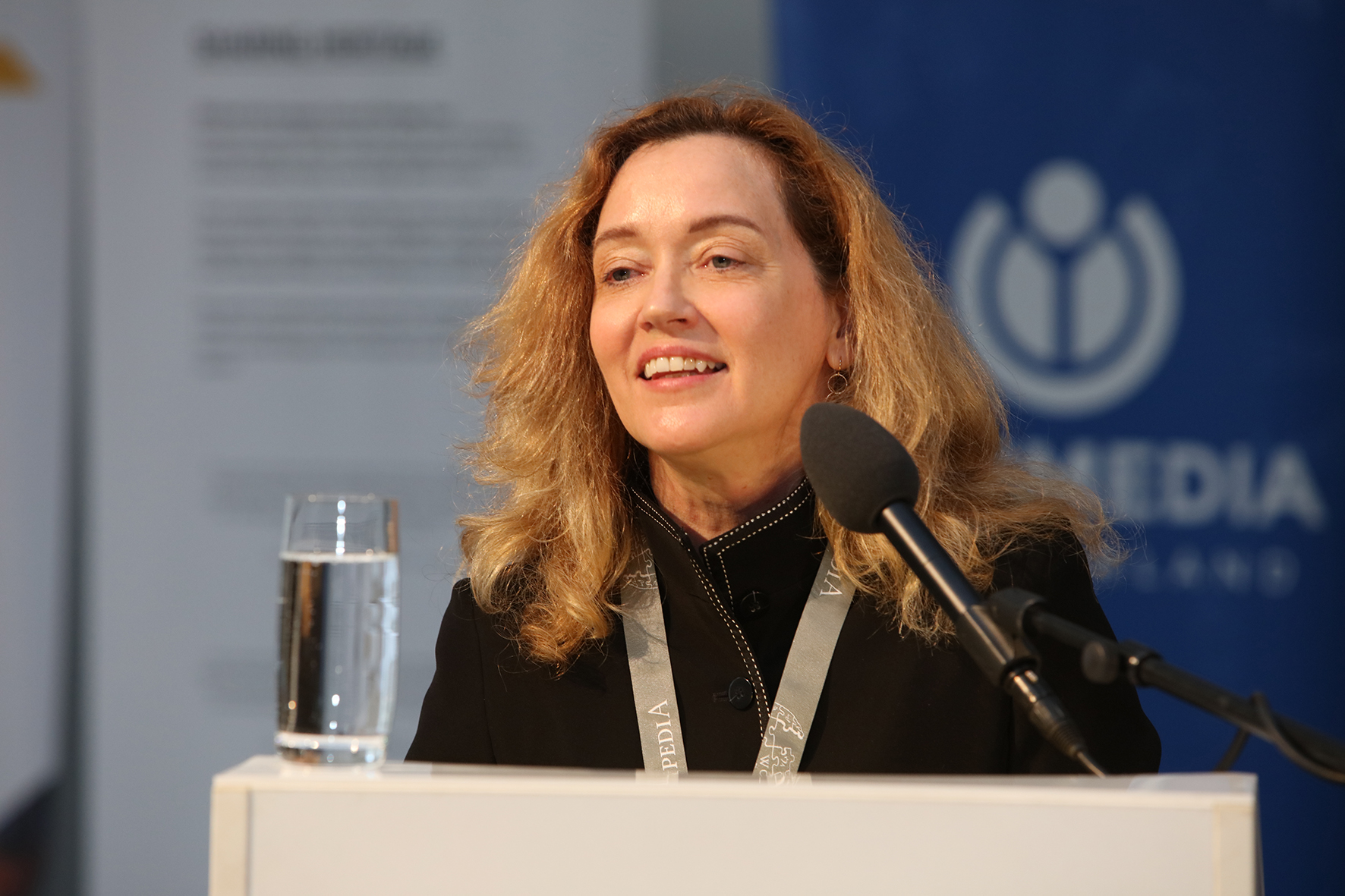 Zugang gestalten 2018